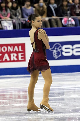 Adelina Sotniкova at the Grand Prix Final 2013